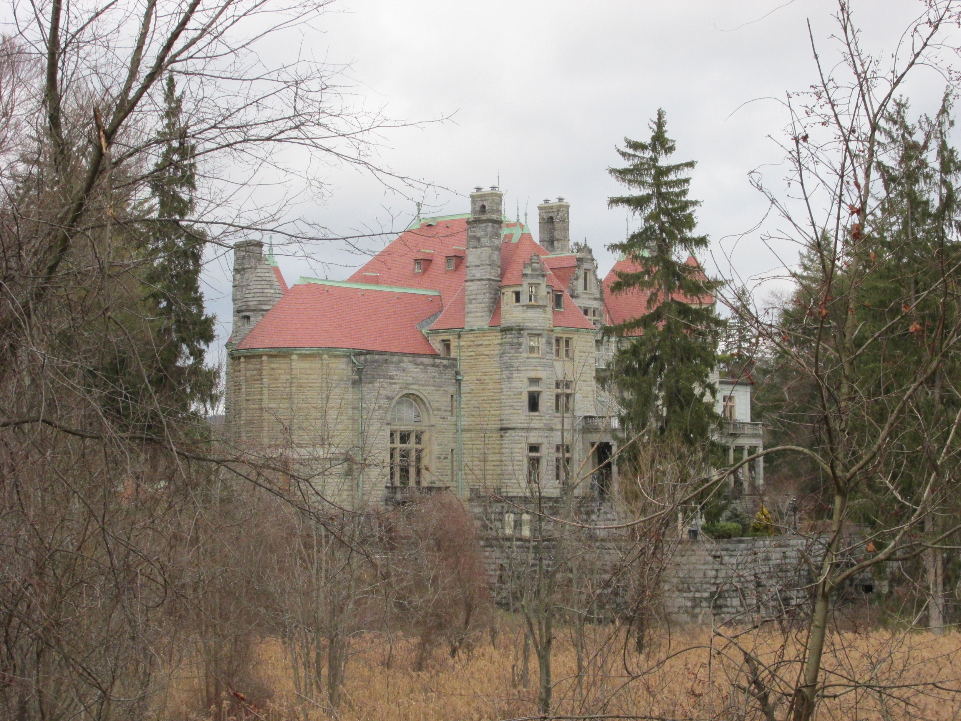 Searles Castle, Great Barrington Massachusetts